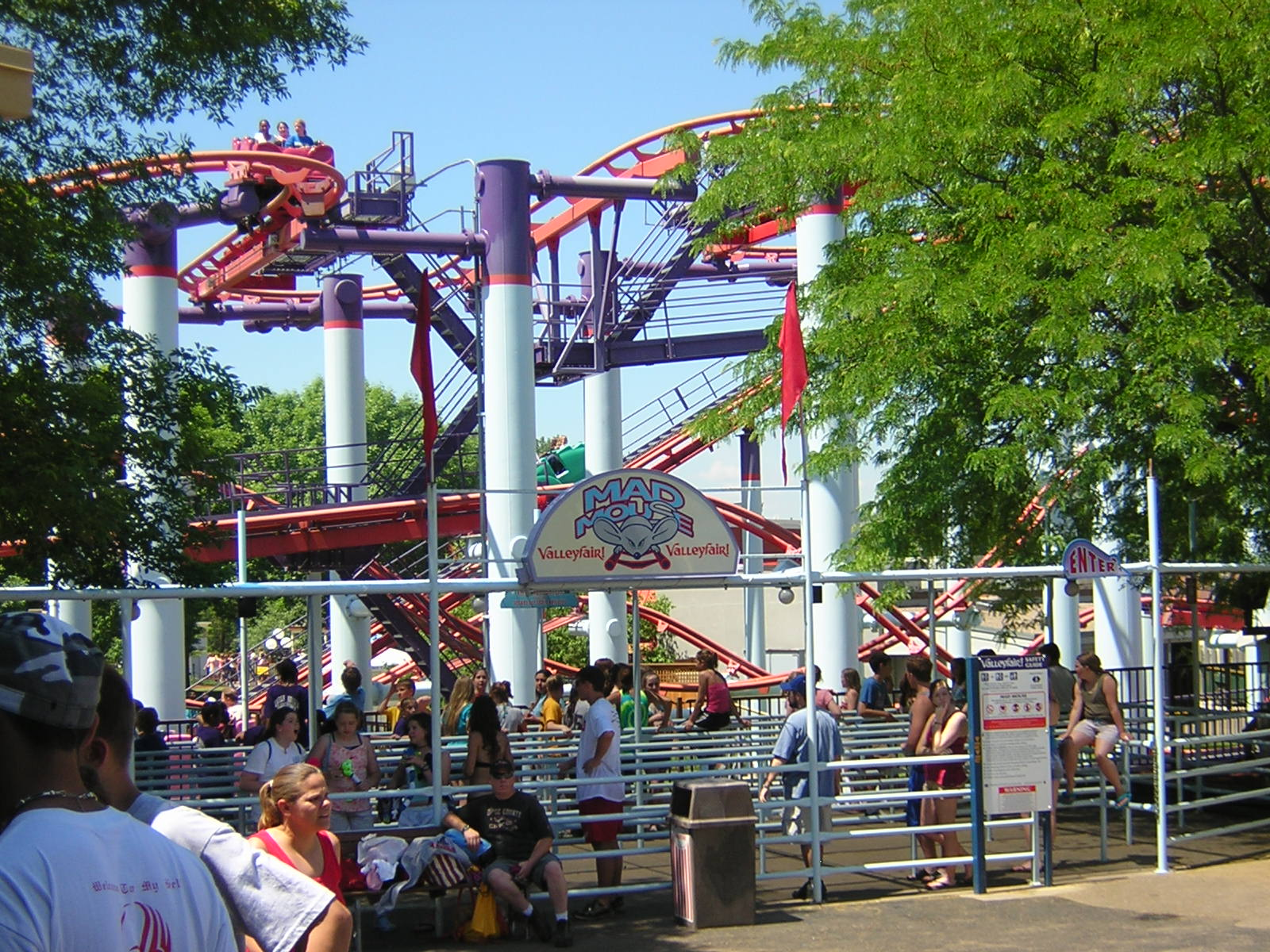 Mad Mouse roller coaster ride at Cedar Fair's Valleyfair! amusement park in Shakopee, Minnesota, USA